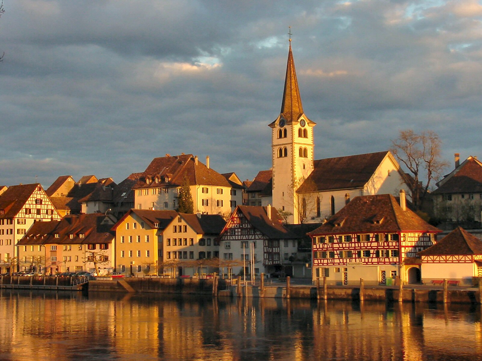 Late afternoon, April 24, 2004, from the bridge on the Rhine.